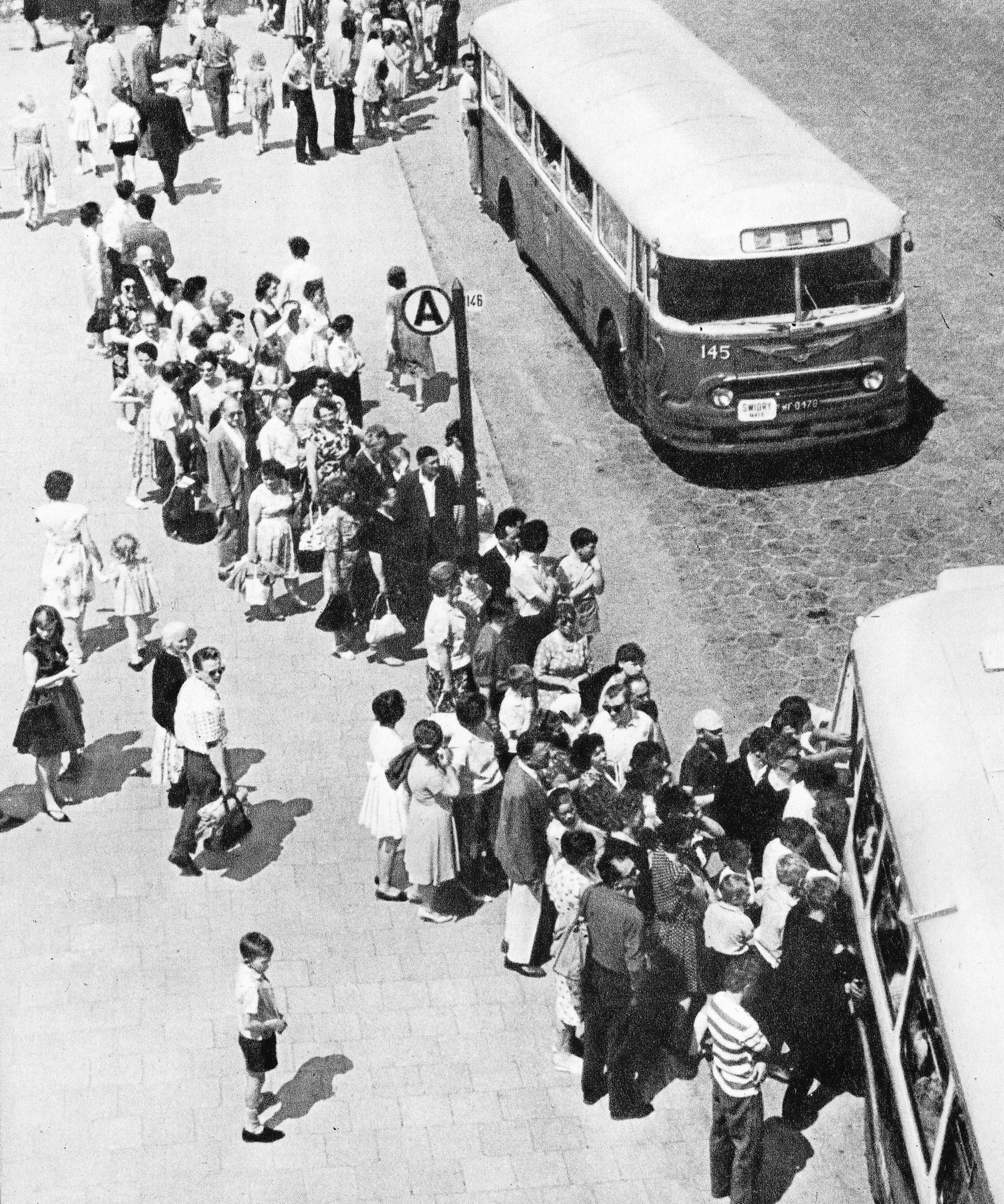 Bus stop in Warsaw